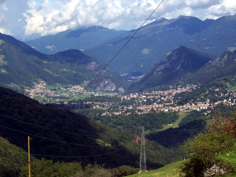 from , released there as PD. Here I choose